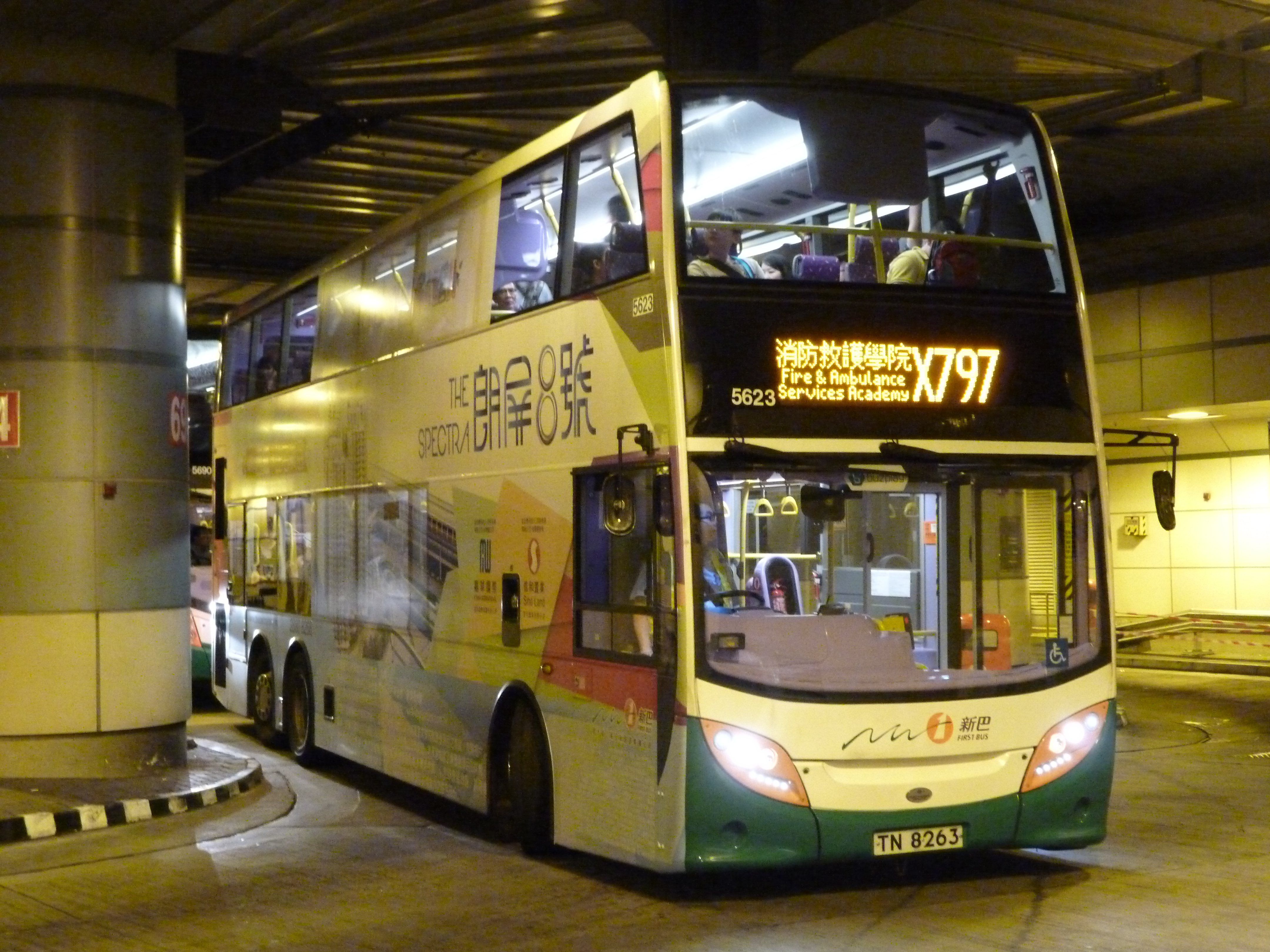 NWFB Route X797 (Tiu Keng Leng Station Public Transport Interchange) 中文（香港）: 新巴X797線 (調景嶺站公共運輸交匯處)